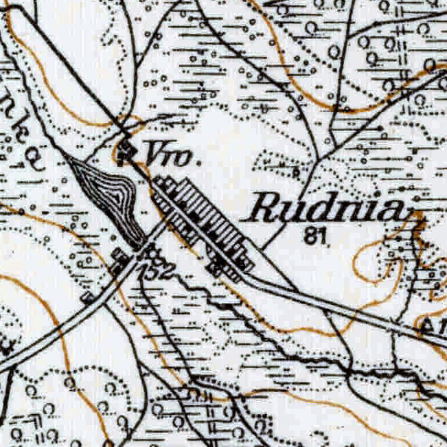 Pidlisne (Rudnia) on the map "Karte des Westlichen Russlands", T 36, 1917. According to Kujawsko-Pomorska Digital Library the map is in the public domain.